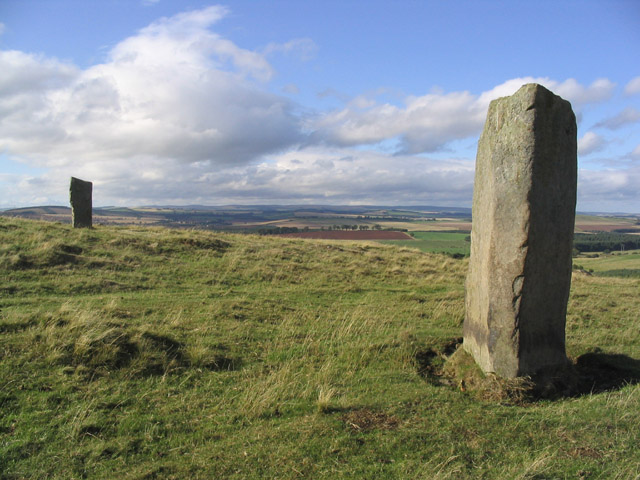 Brothers' Stones on Brotherstone Hill. According to legend, these standing stones mark the spot where two brothers fought and killed each other over an argument about religion.